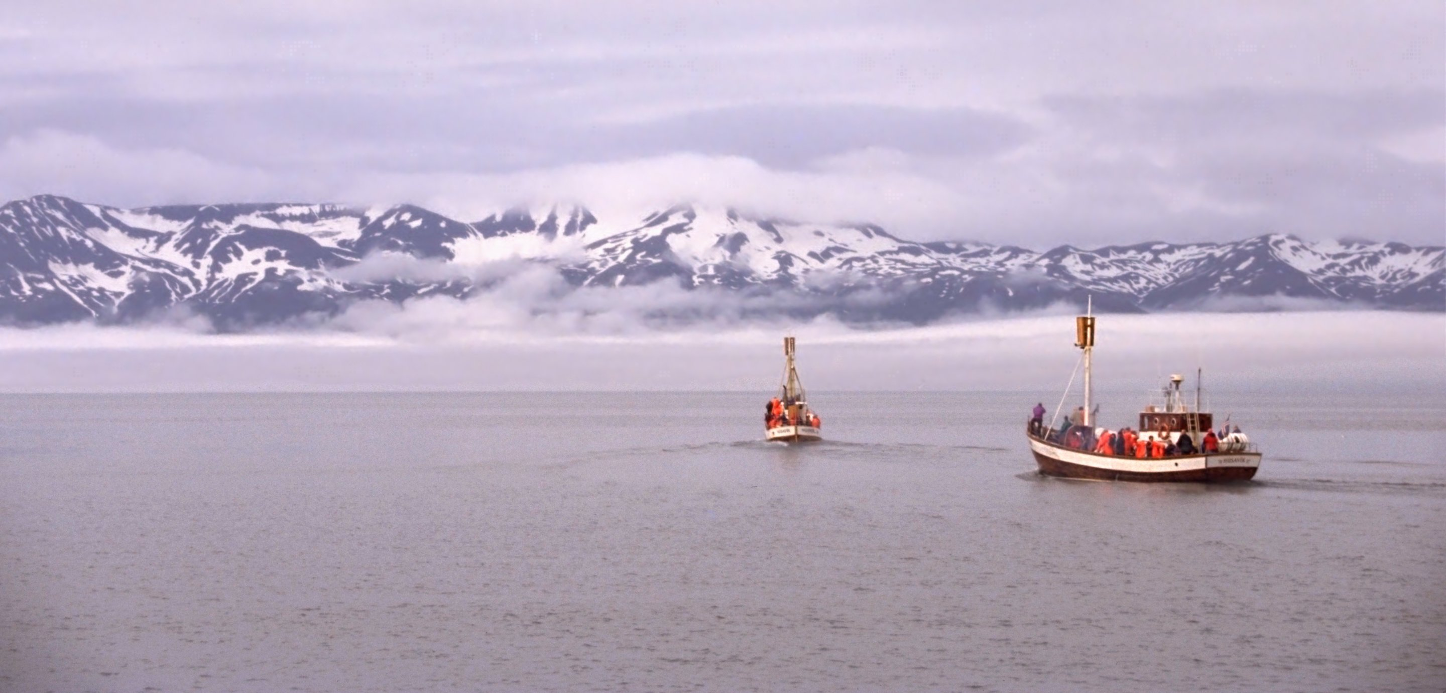 Whale watching ships, Husavík, Iceland